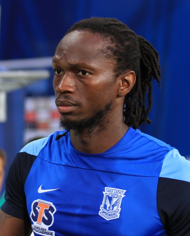 Football players of Lech Poznań, Poznań, Poland.